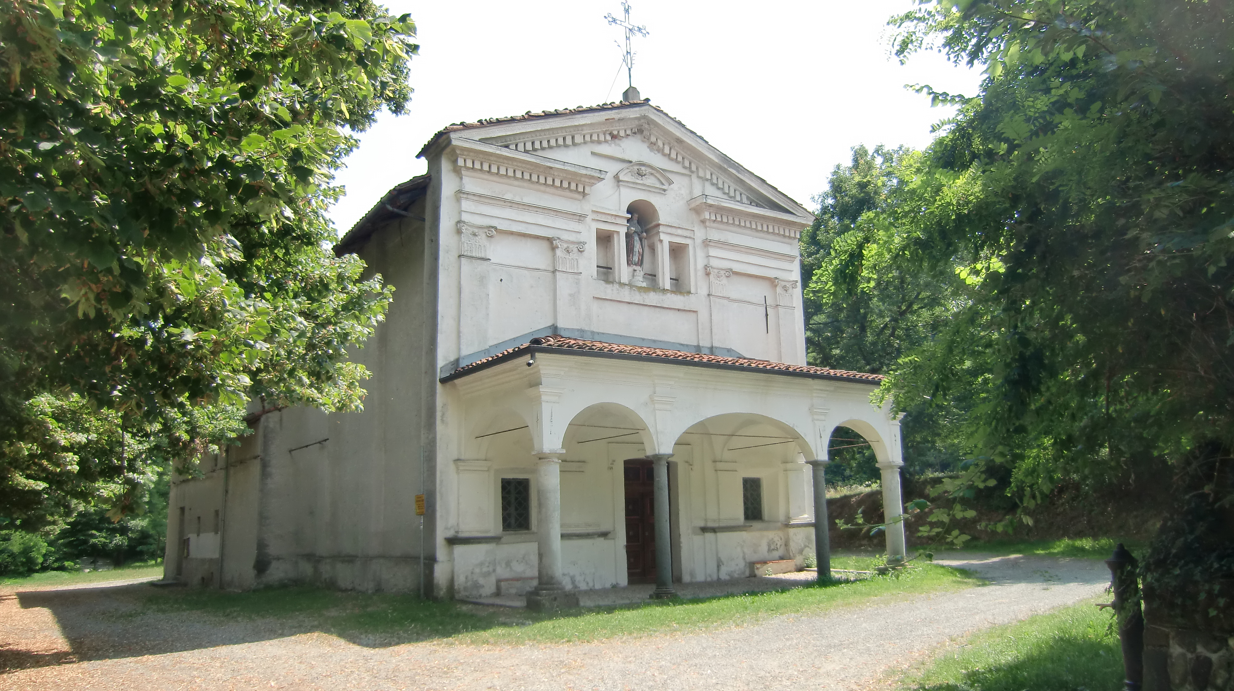 Sanctuary dedicated to St. Anthony the Abbot, Azeglio (Province of Turin), Italy